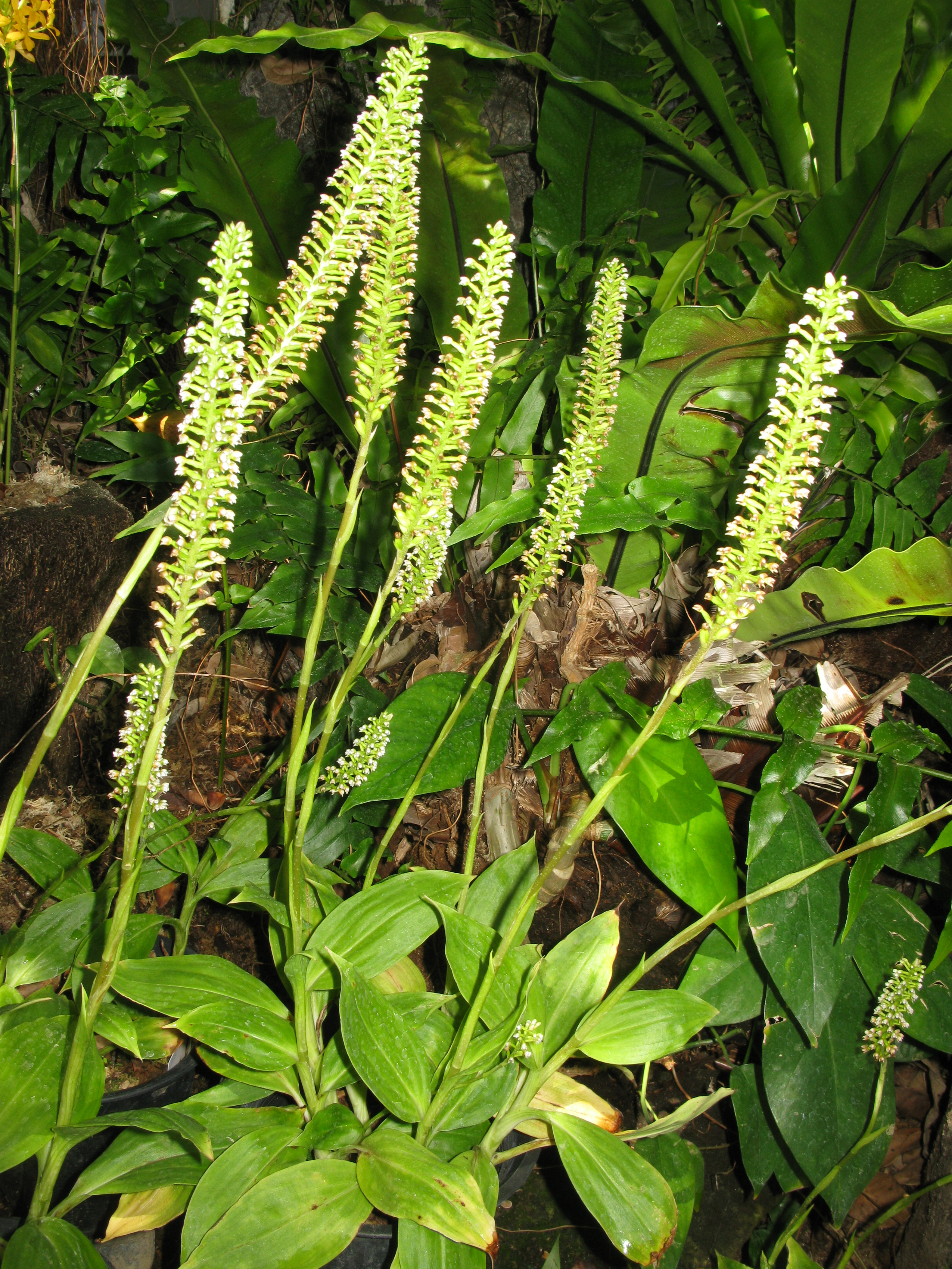 Goodyera procera, Yumenoshima Tropical Greenhouse Dome, Tokyo, Japan